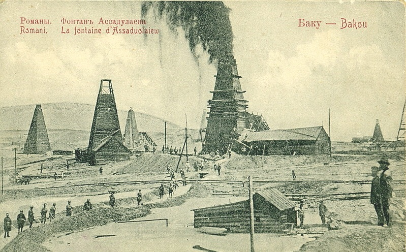 Fountain of Asadullayev